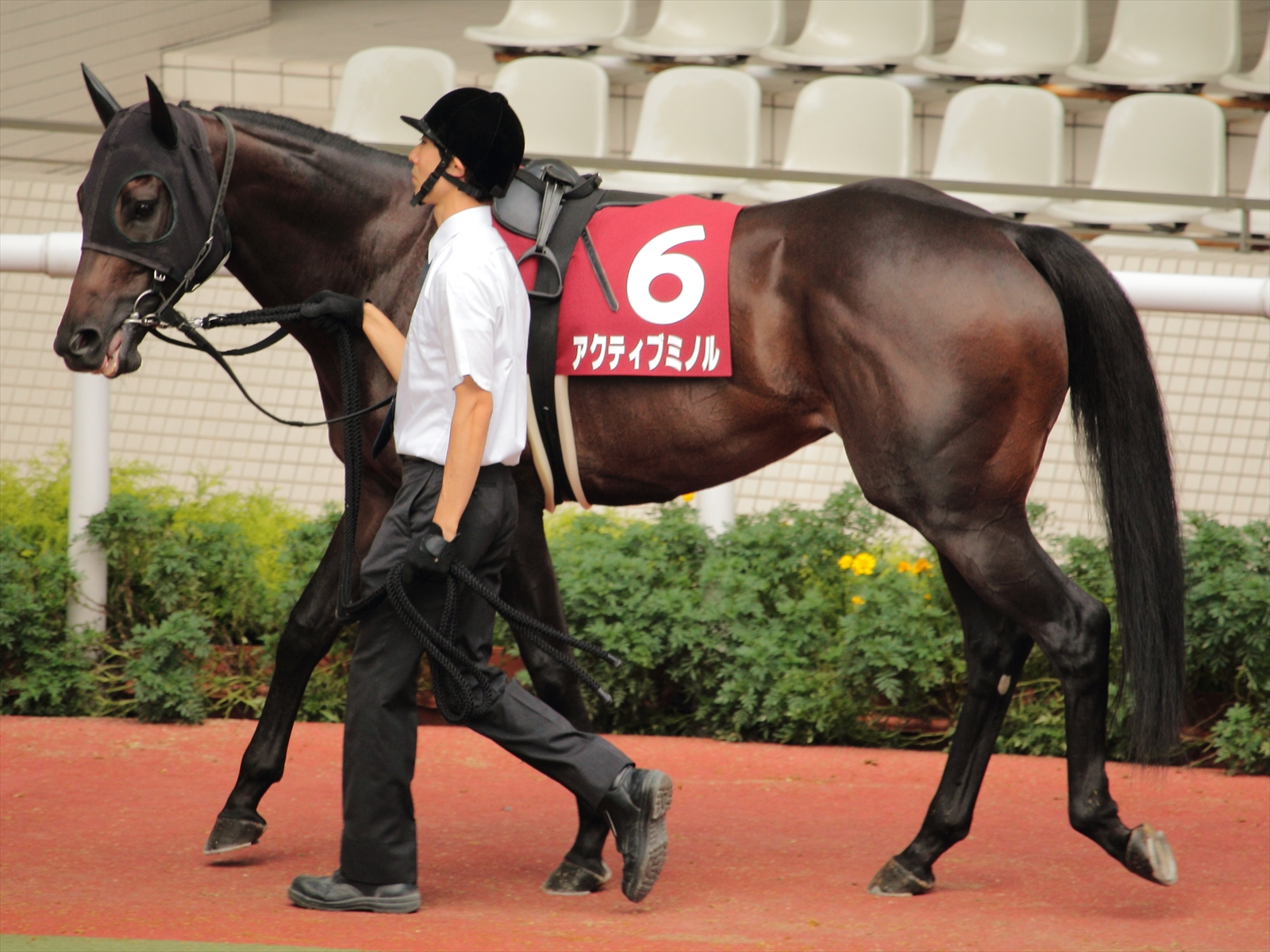 Active Minoru (Racehorse of Japan).